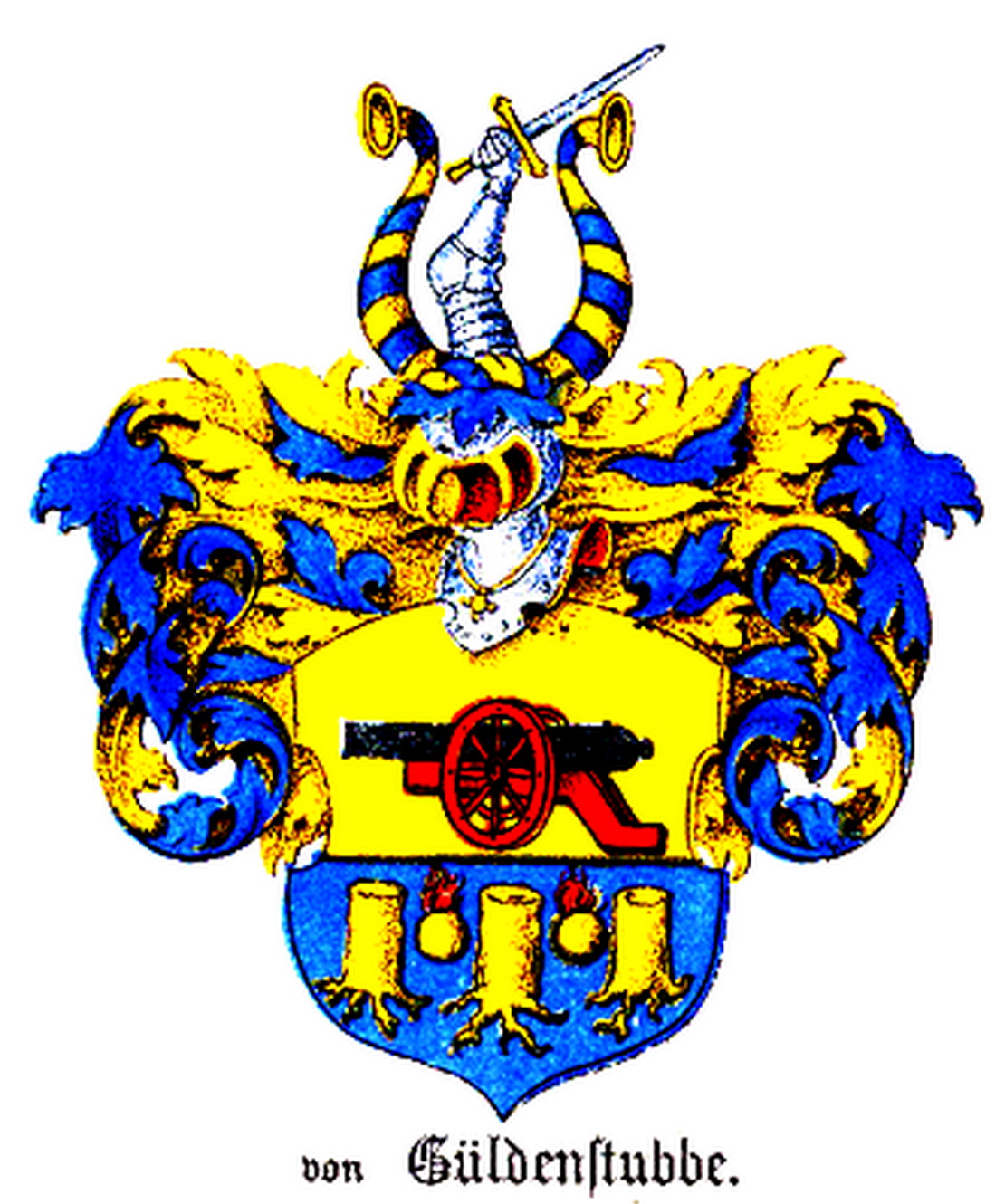 Coat of arms of Güldenstube family.